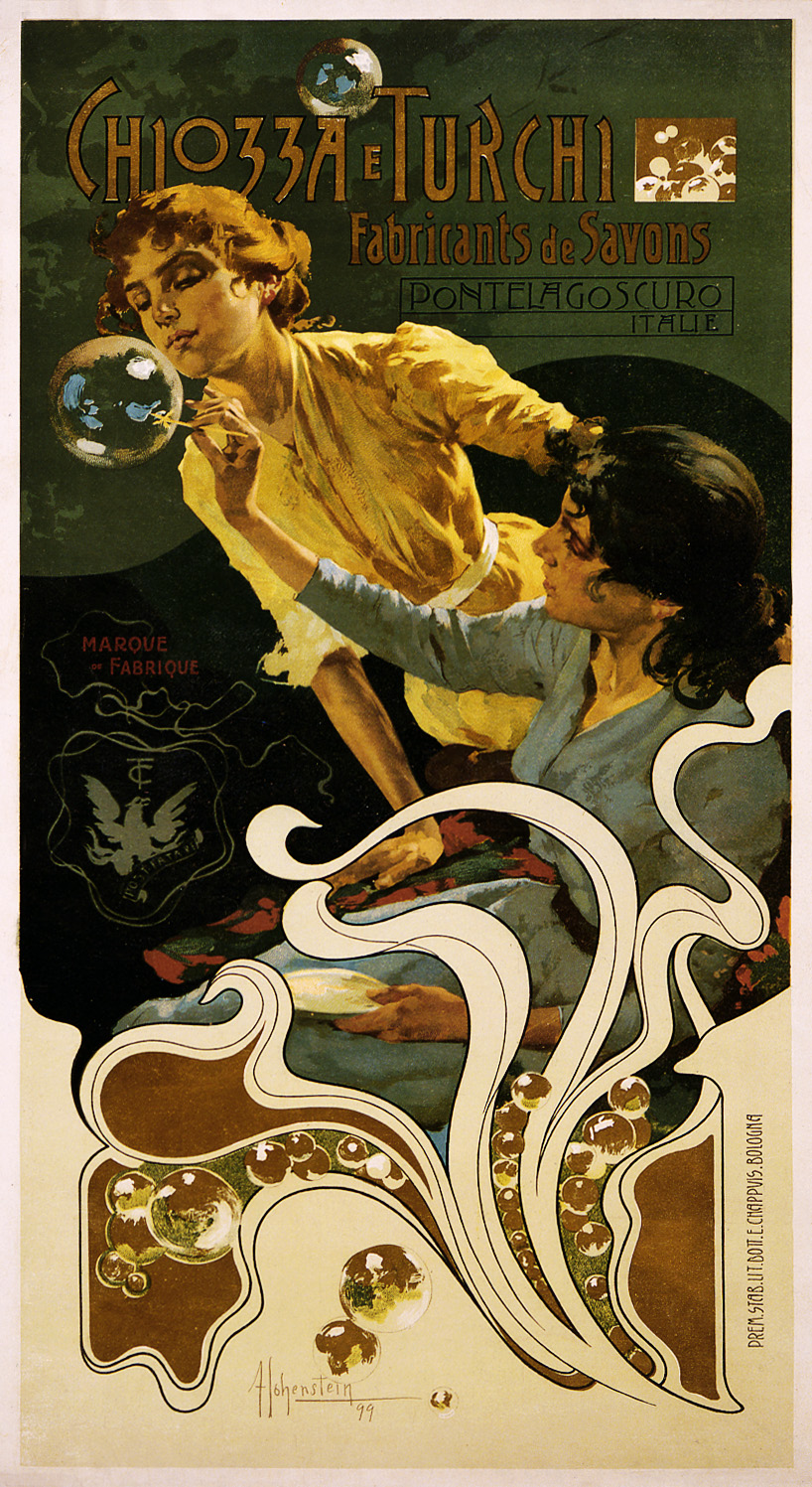 "Chiozza e Turchi, fabricants de savons, Pontelagoscuro, Italie" by Adolfo Hohenstein (1854-1928). Color lithograph advertising poster in French for Chiozza e Turchi soap manufacturers.